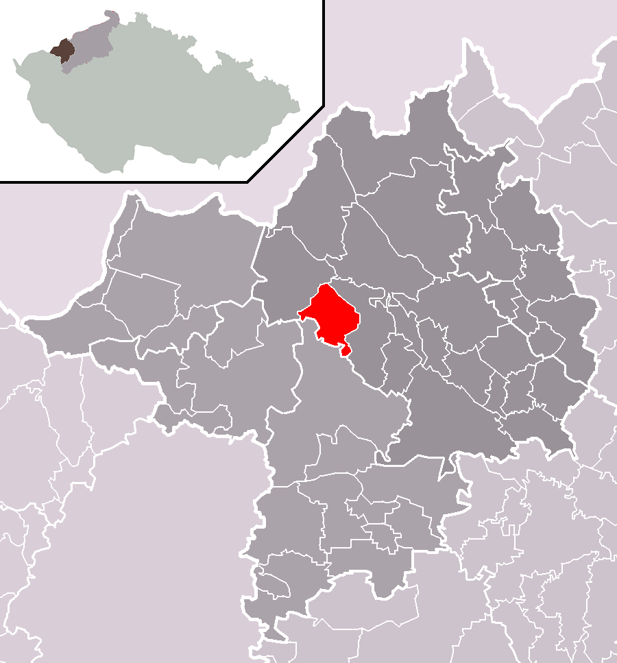 Location of Místo municipality within Chomutov District and administrative area of Chomutov as a Municipality with Extended Competence.